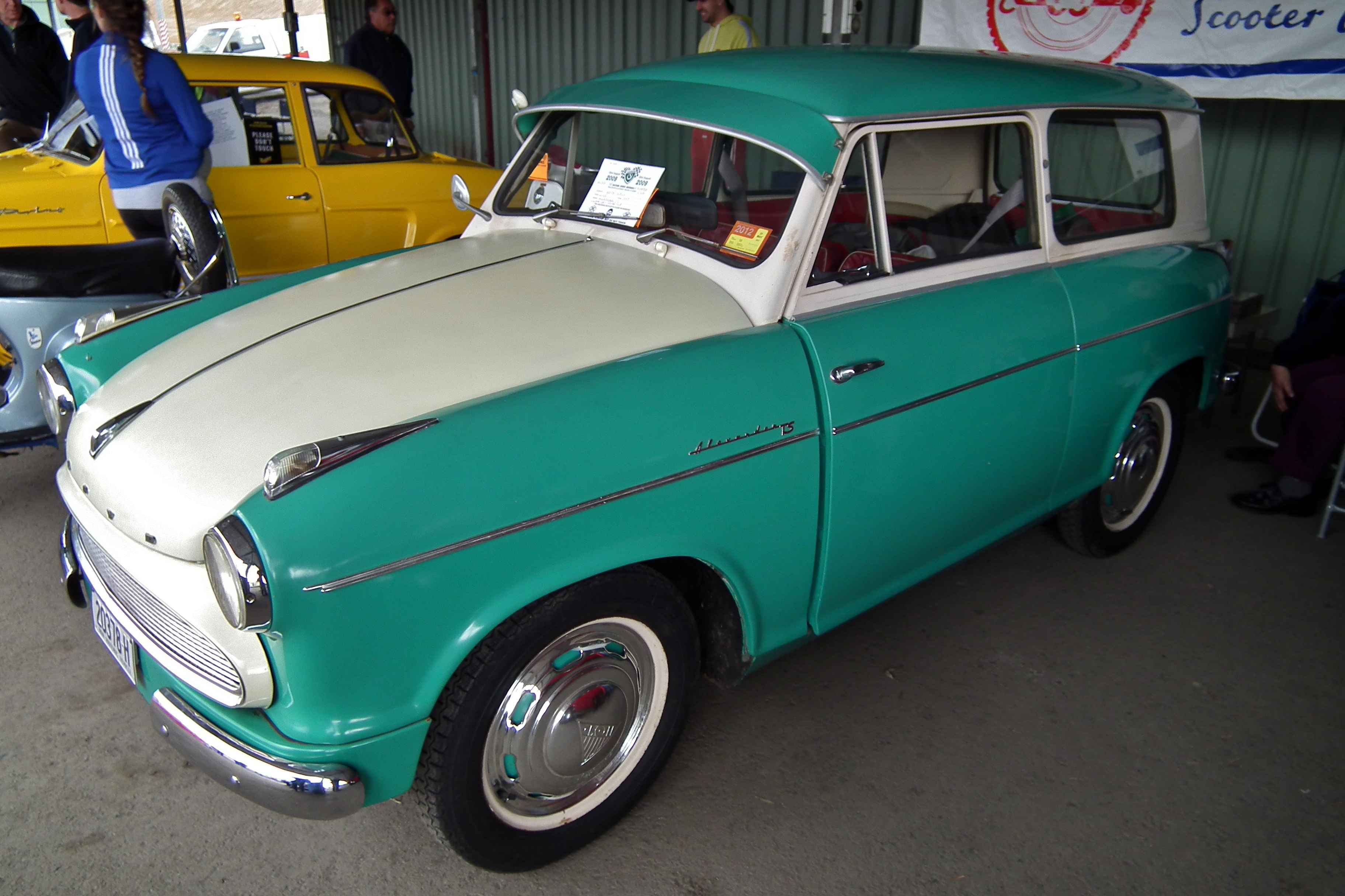 1959 Lloyd Alexander TS station wagon. These were imported and distributed by Sir Laurence Hartnett, and marketed as Lloyd-Hartnetts. Taken at Shannon's Eastern Creek Classic 2011, held at Eastern Creek Raceway Sydney.